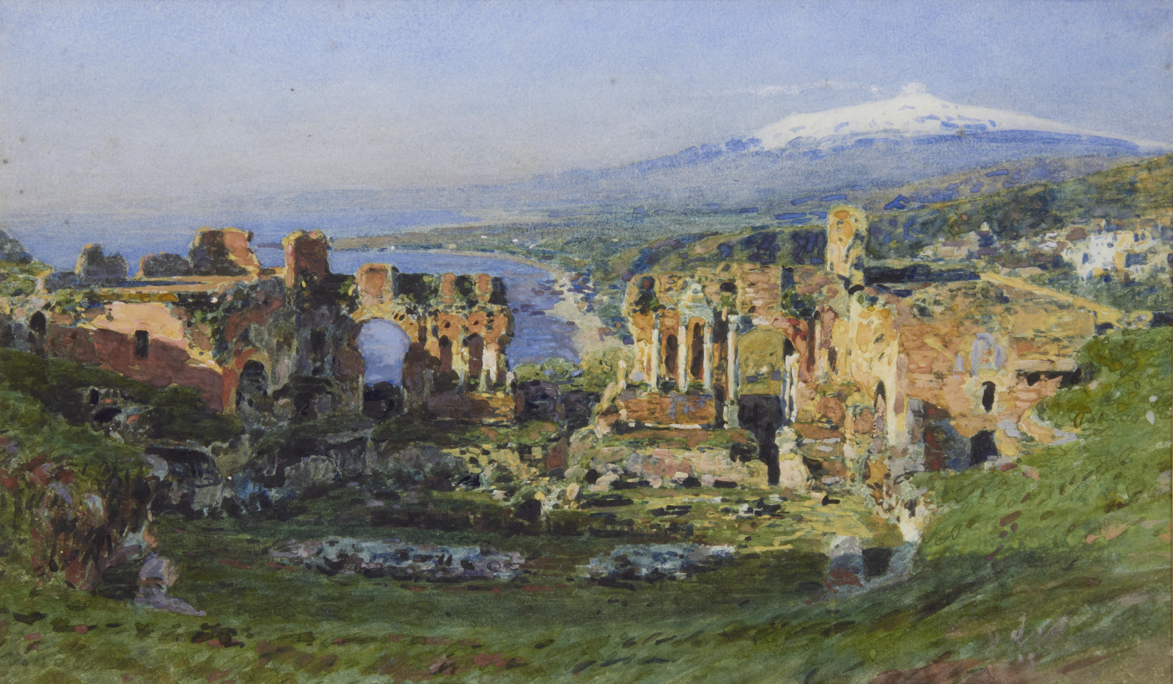 Roman Theatre, Taormina, watercolour, 22 x 37cm